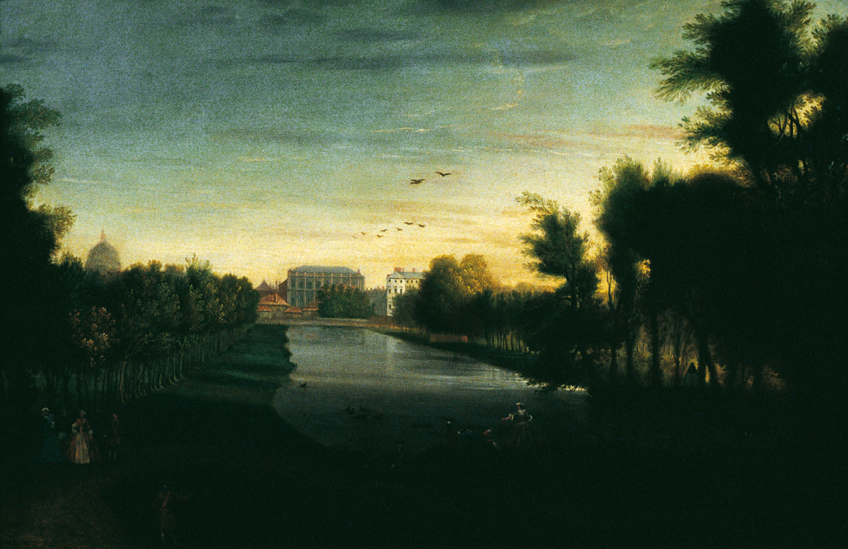 St. James's Park and the Banqueting House, London, 18th century view across water.